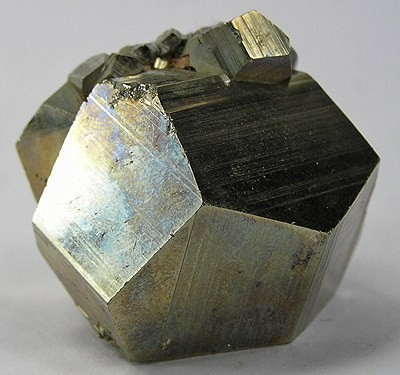 Pyrite Locality: Shangbao Pyrite mine, Leiyang County, Hengyang Prefecture, Hunan Province, China (Locality at ) Size: 3.4 x 3.4 x 3.4 cm. Bright, golden, beautifully striated pyrite crystals.